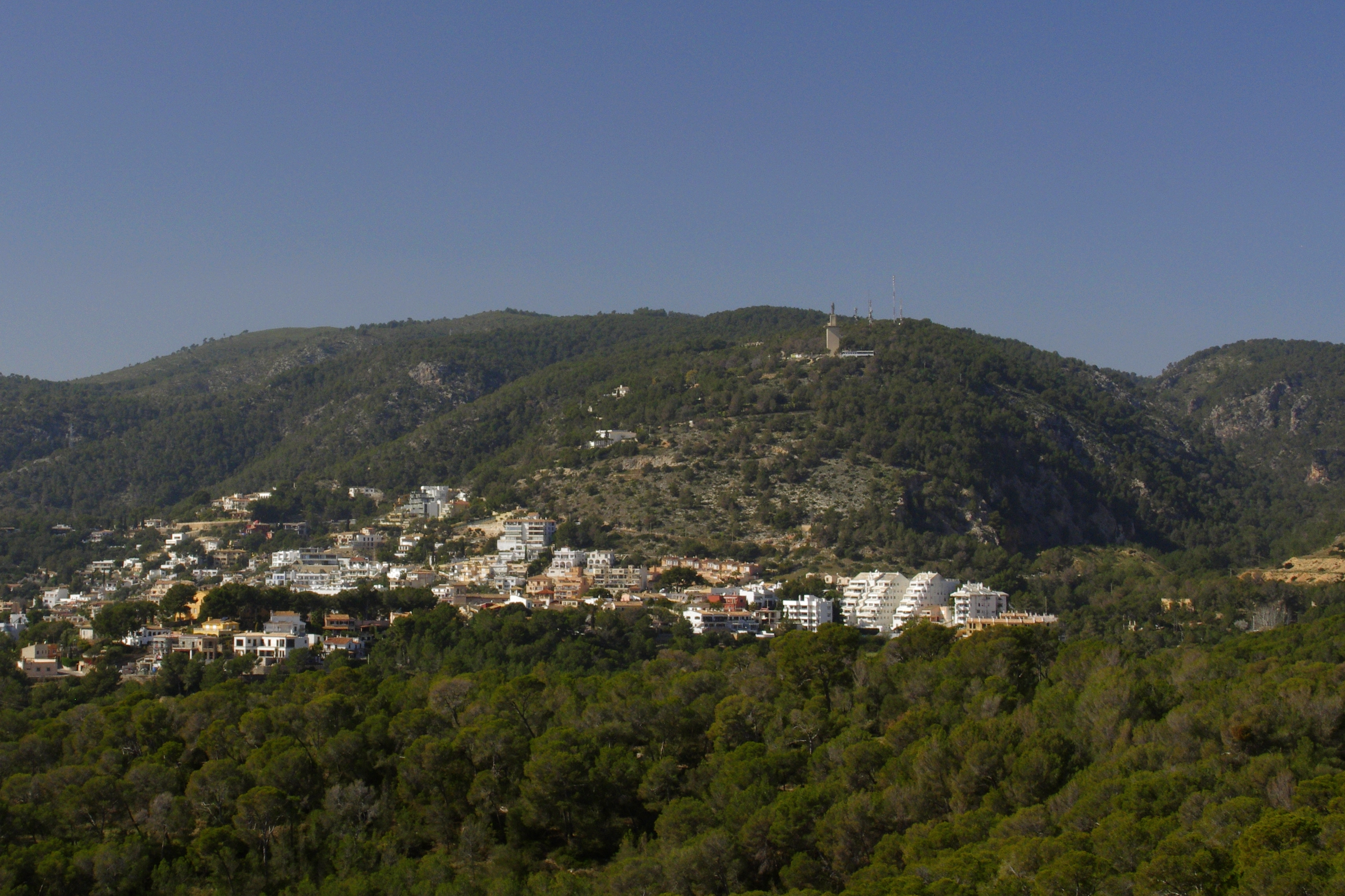 Serra de na Burguesa, mountain in Calvià, Mallorca; Serra de Tramuntana range, seen from Bellver Castle in Palma.